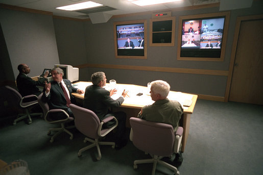 President George W. Bush, White House Chief of Staff Andy Card (left) and Admiral Richard Mies conduct a video tele-conference at Offutt Air Force Base in Nebraska, Sept. 11, 2001.